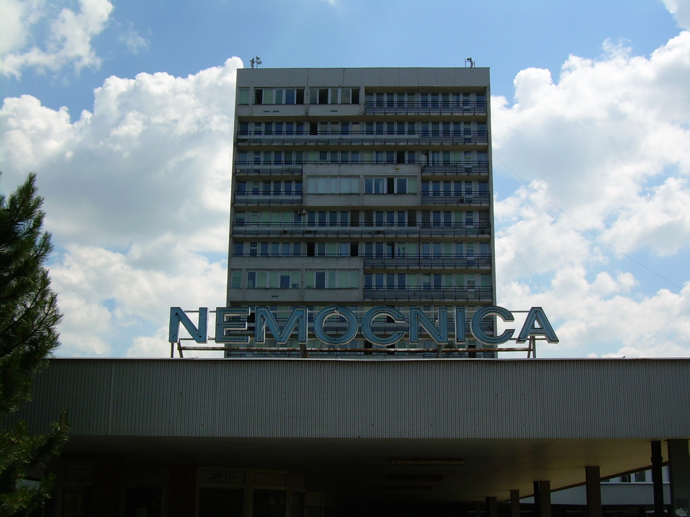 The Ružinov Hospital in Bratislava, Slovakia